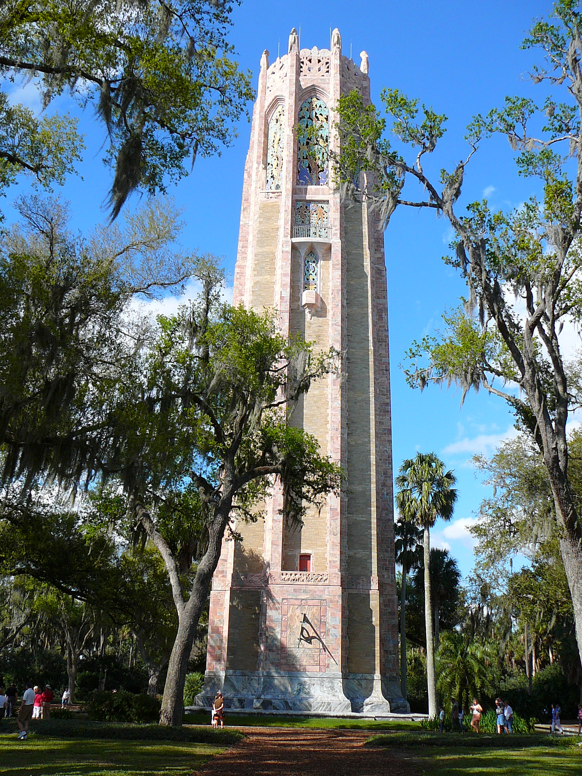 rear face of Bok Tower in Lake Wales, Florida